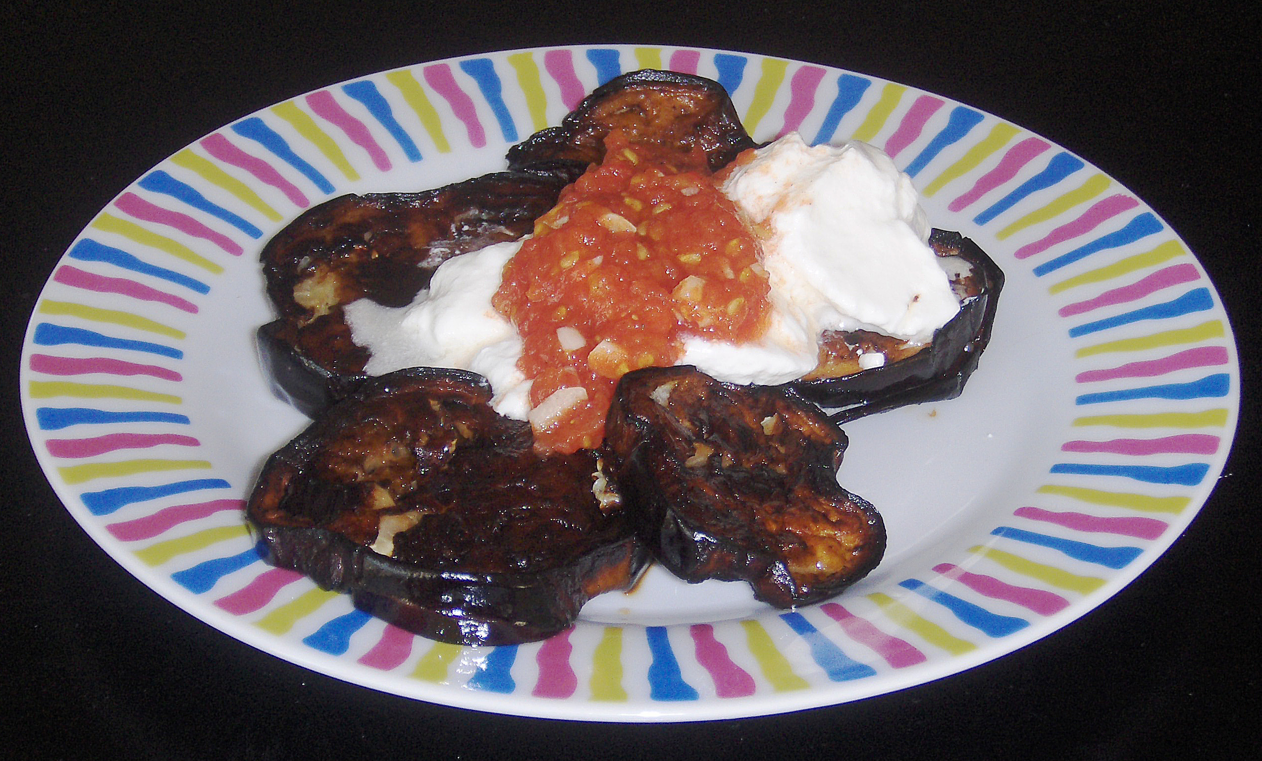 Fried eggplant with yoghurt and grated tomato.